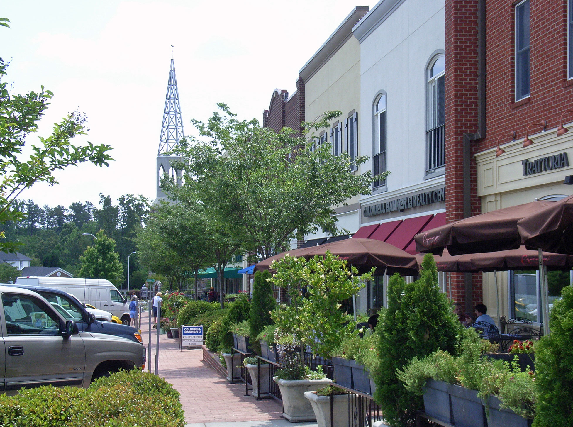 Market Street in Chapel Hill, N.C. There were signs advertising a charrette (not really, just a one day workshop) for building in the parking lot in the middle of Market.